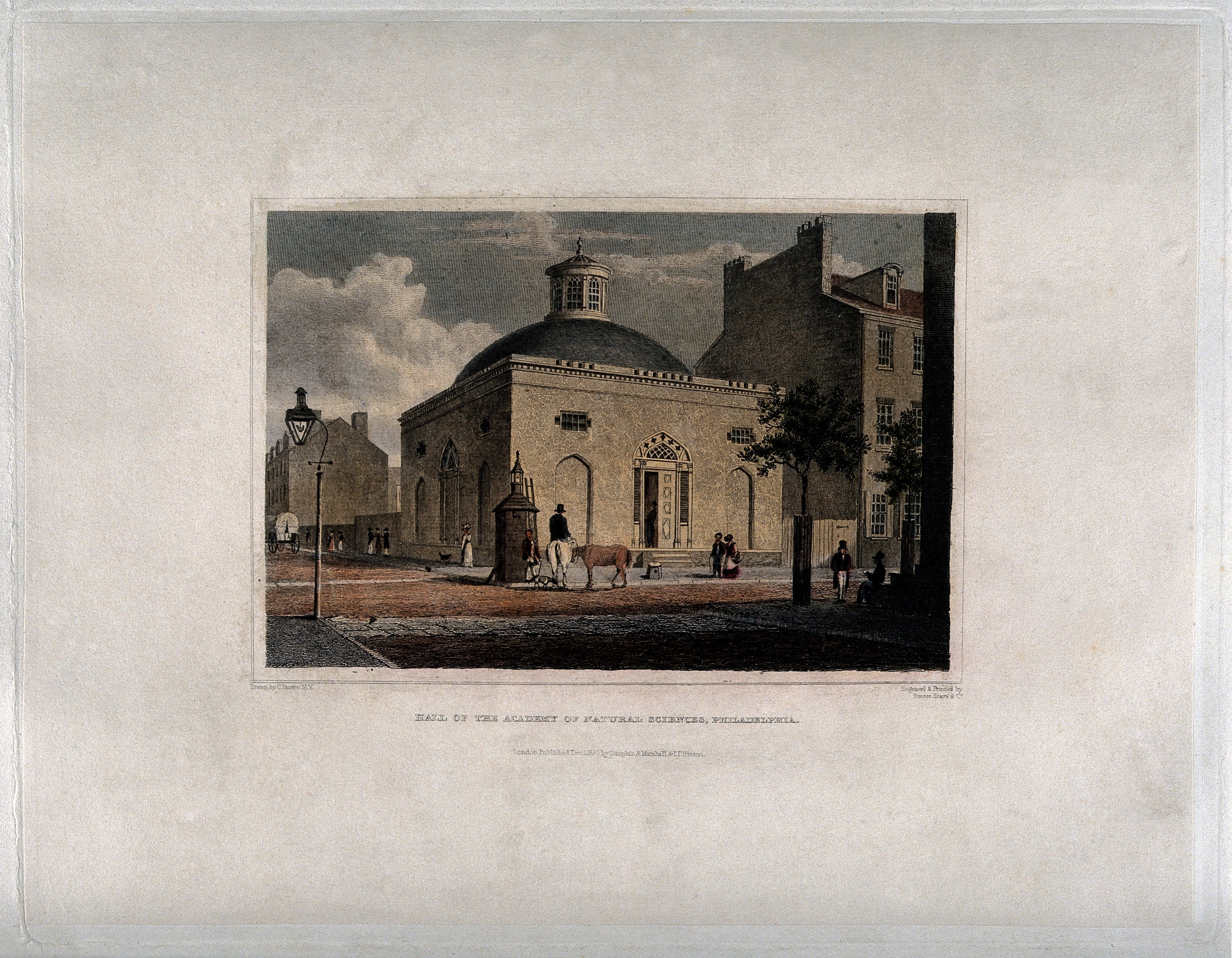 Academy of Natural Sciences, Philadelphia. Coloured engraving by Fenner Sears & Co., 1830, after C. Burton. Iconographic Collections Keywords: C. Burton; Fenner Sears & Co..